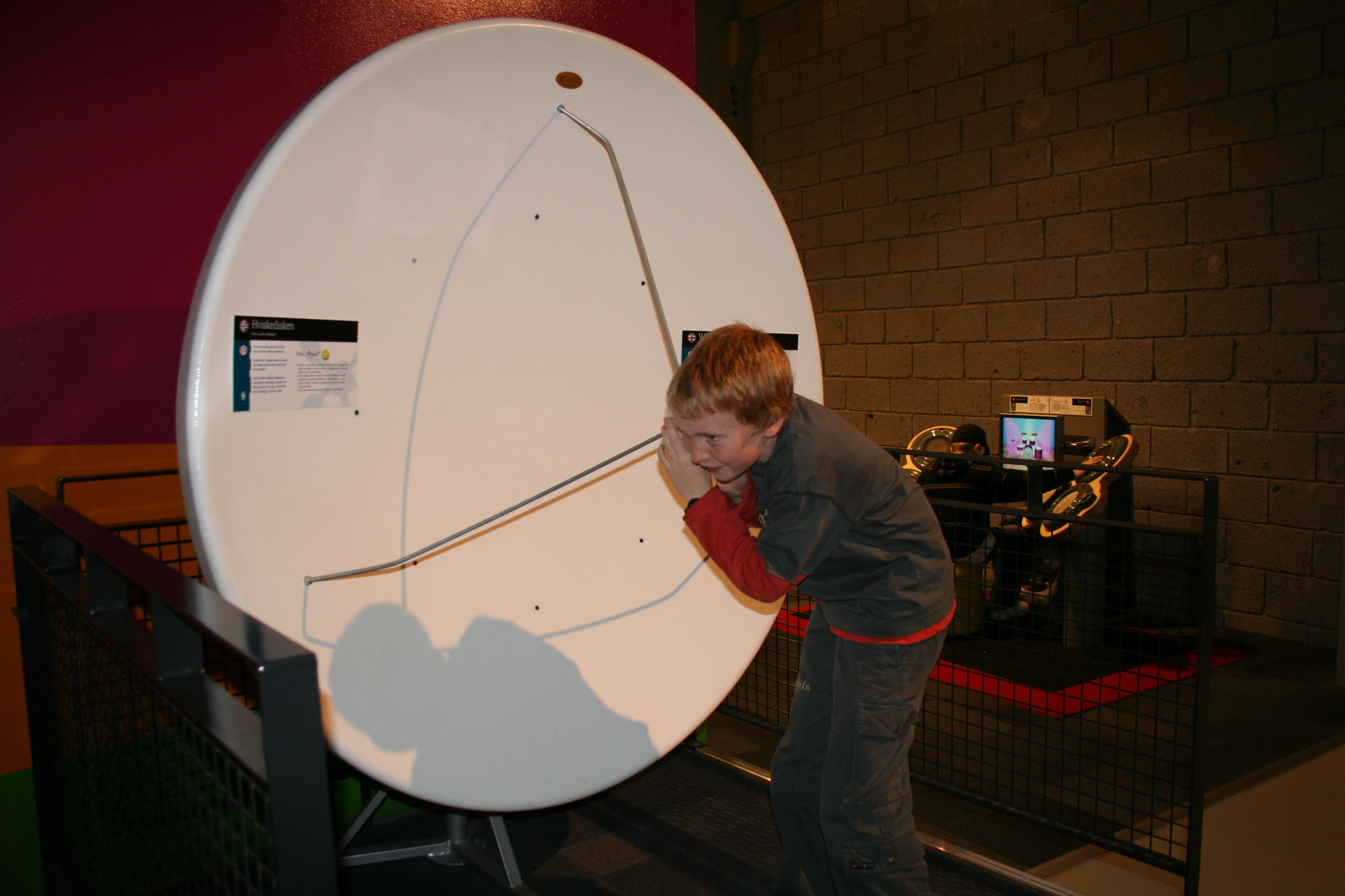 Whisper dishes, Bergen Science Centre.